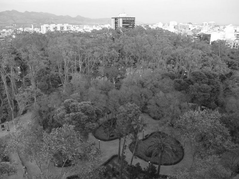 Ribalta's parc photo, Castelló de la Plana